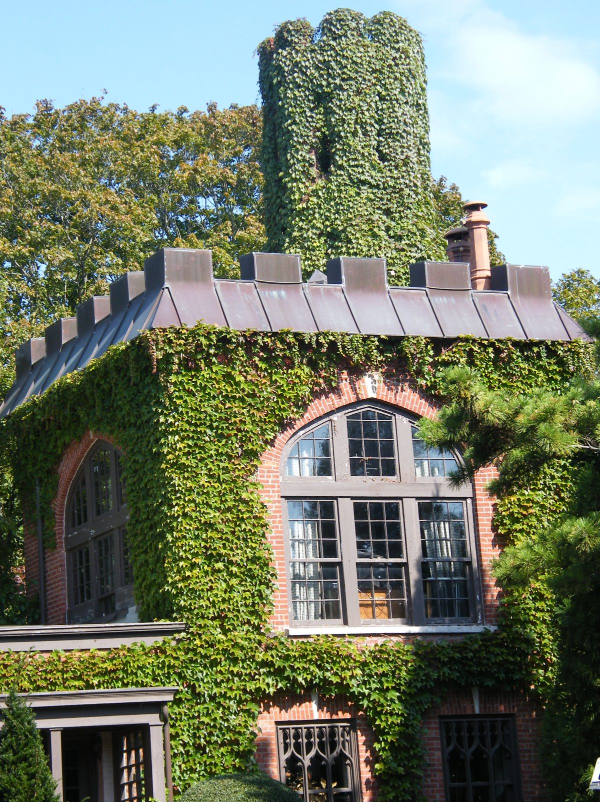 Balscastle